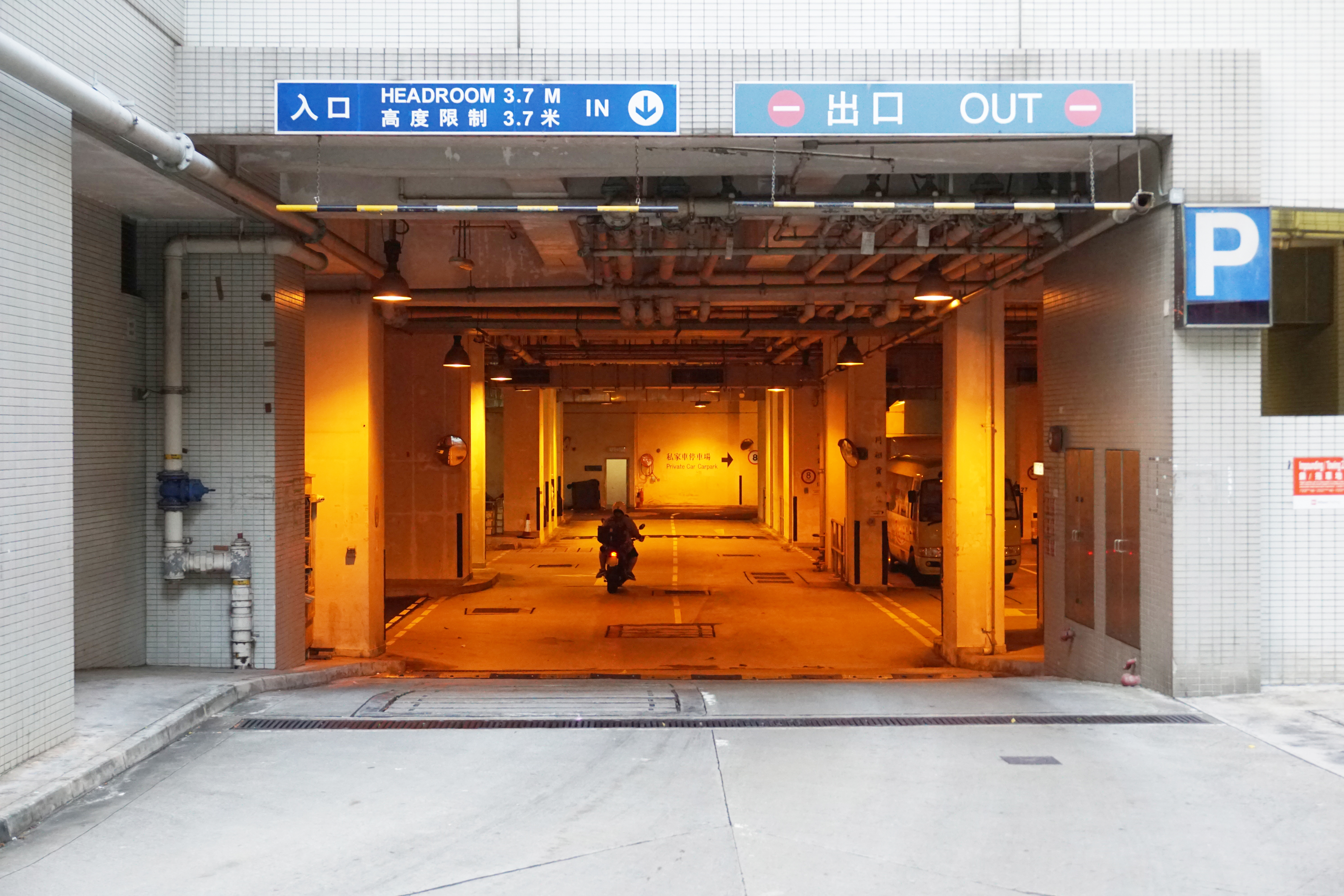 Lei Muk Shue Estate in Wo Yi Hop, Hong Kong.